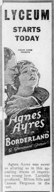 Newspaper advertisement for the American drama film Borderland (1922) with Agnes Ayres, on page 13 of the July 26, 1922 Duluth Herald.